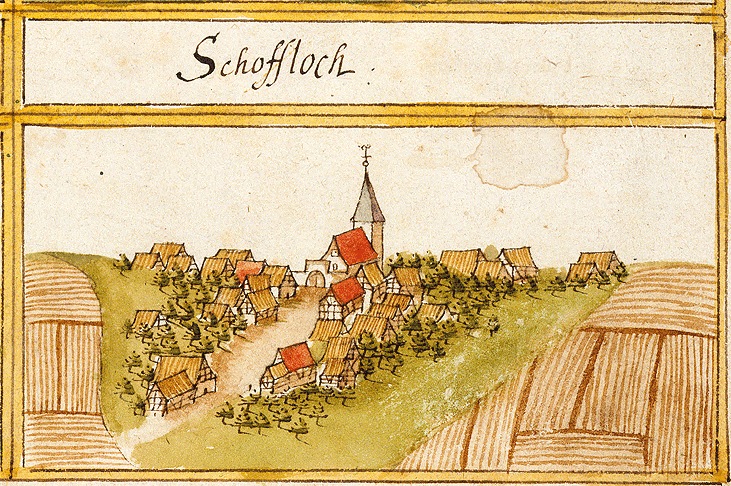 View of Schopfloch, Lenningen, from the forest register books created by Andreas Kieser